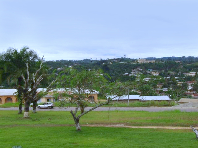 City in Gabon